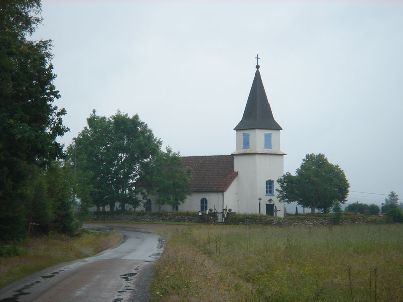 Mo church in Tanum local com in Sweden